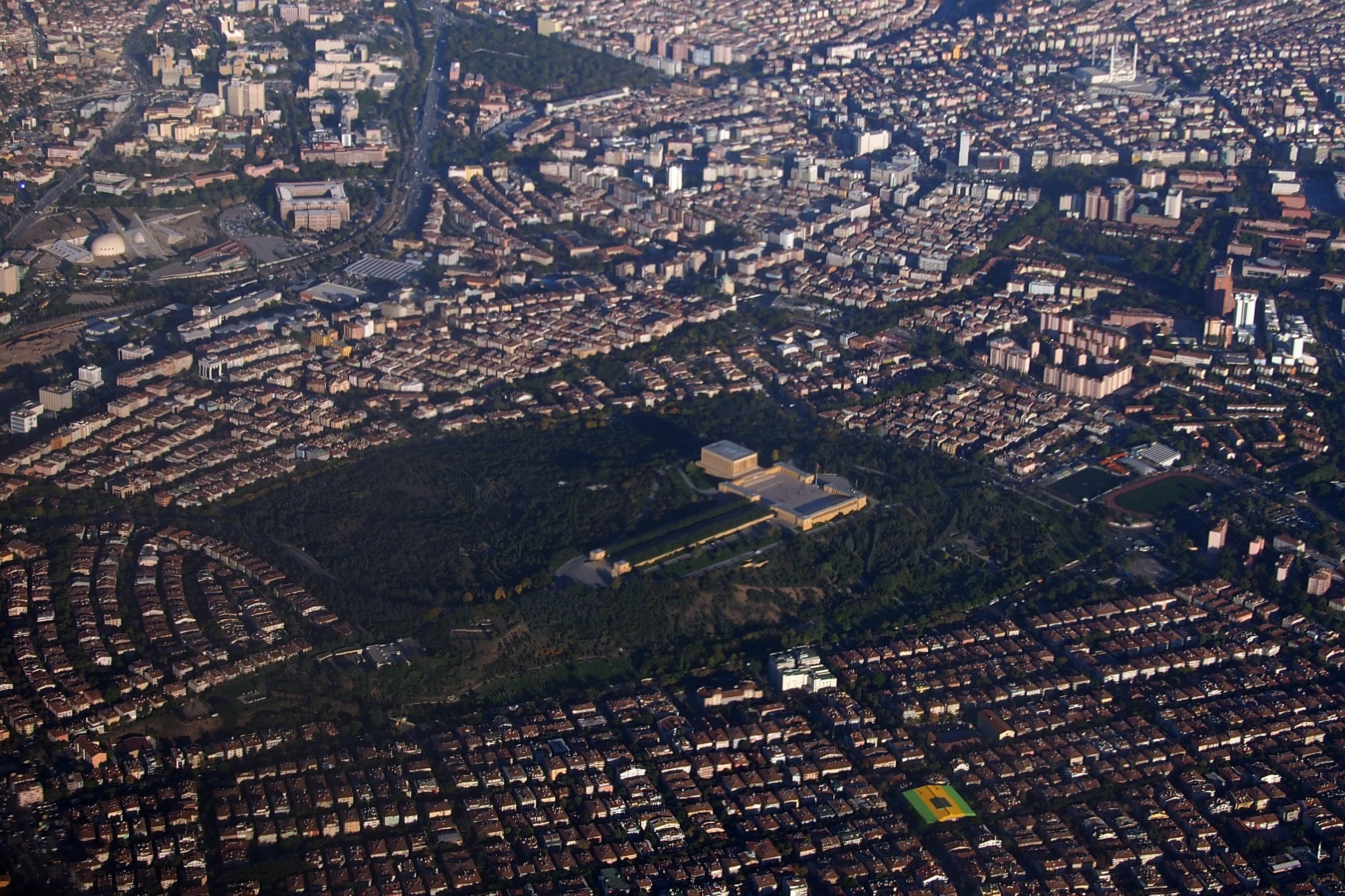 Aerial View of Atatürk Mausoleum - 2014.10